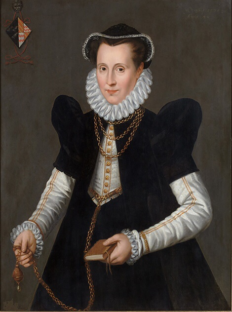 Portrait of Anna van Renoy holding a book and a pomander